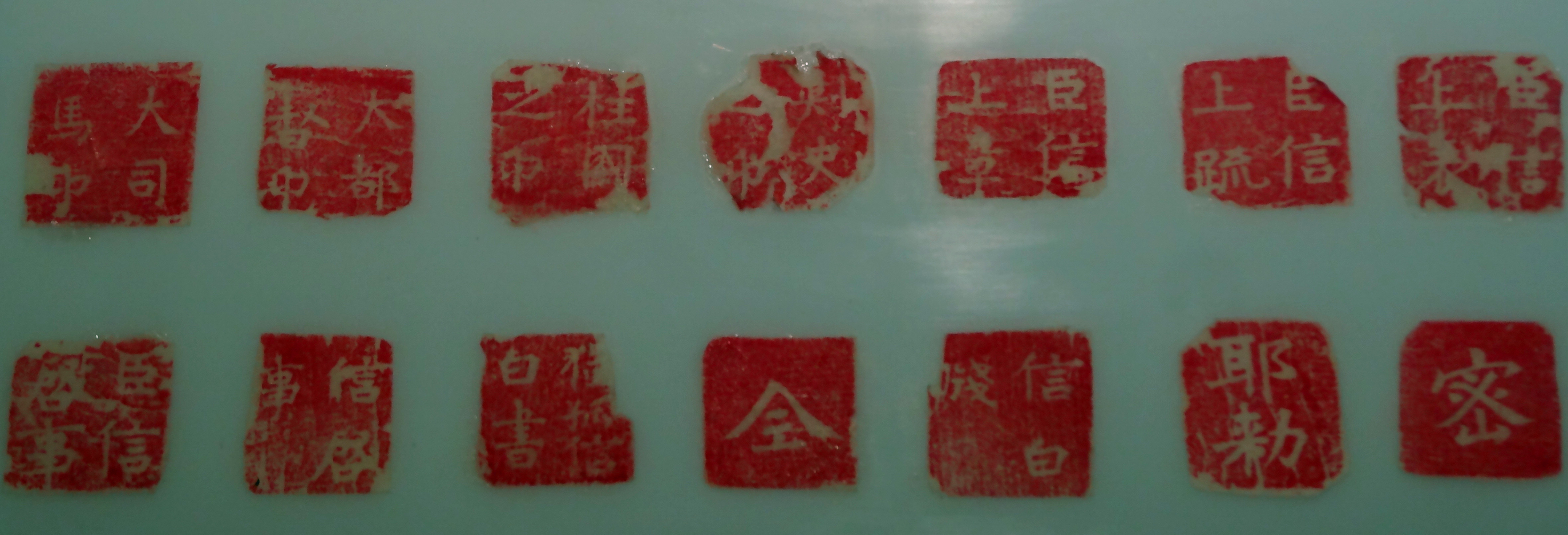 The seal is in a spherical shape with eight ridges, including 18 square faces and 8 triangular faces, its owner was the famous minister of Western Wei Dynasty Dugu Xin.